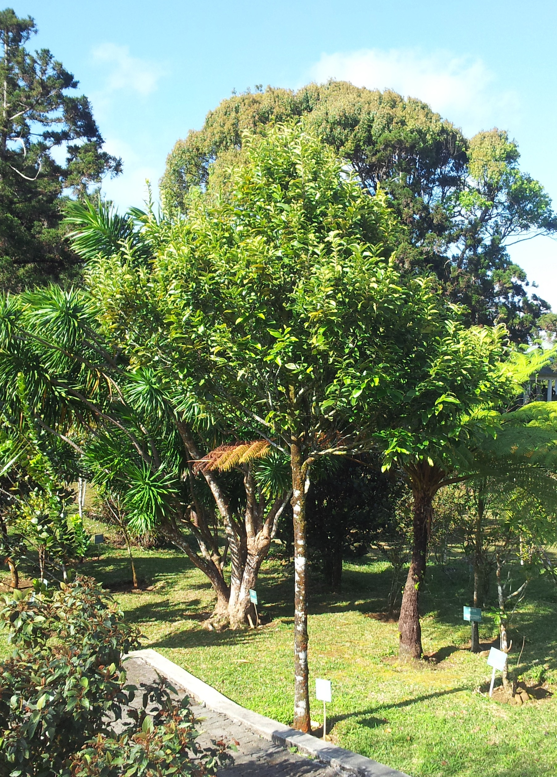 Diospyros tessellaria - foliage of bois d ebene noir - Monvert